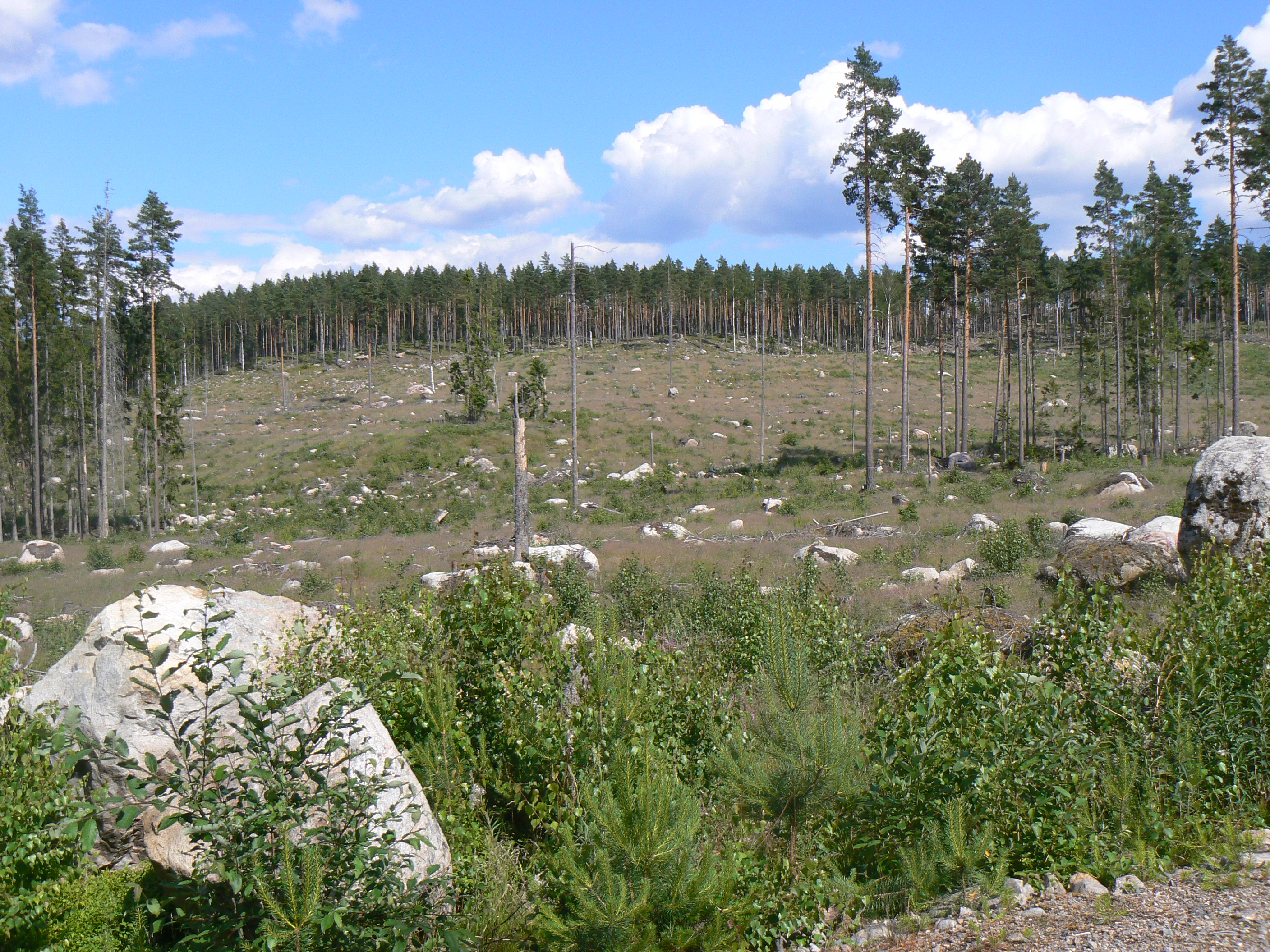 View towards the top of Ringkällmyrberget ("Mount Ringkällmyr"/"Ringkällmyr Hill") near Falun in Sweden.